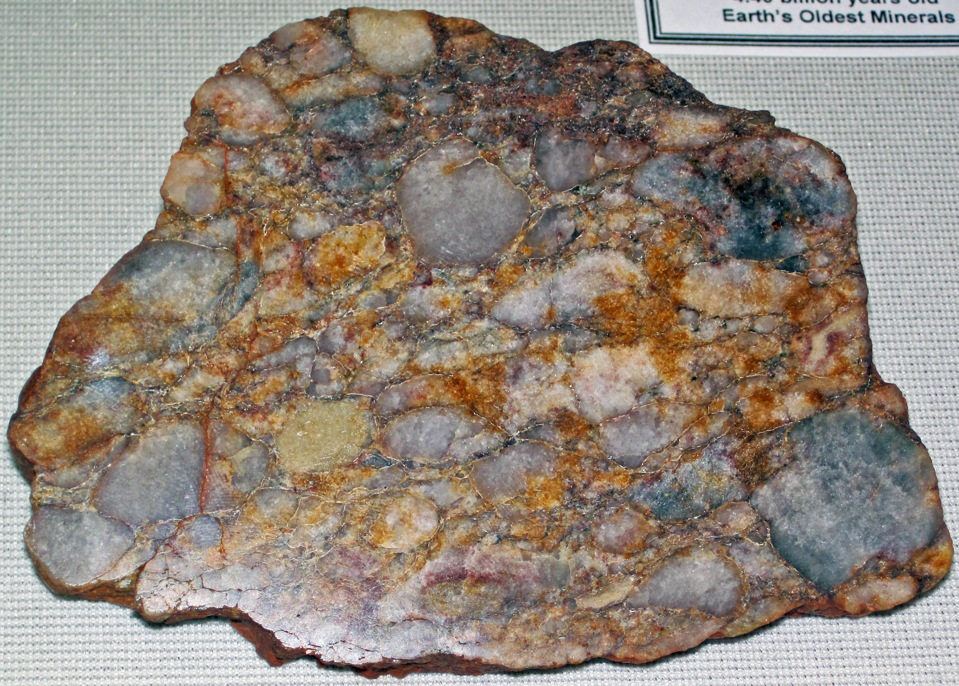 Polished cut of specimen of Archaean (i.e. ~3 Billion years old) quartz-pebble metaconglomerate from the Jack Hills, Western Australia. These metaconglomerates are renowned for containing the oldest mineral grains (so-called detrital zircons) of the earth (~4.4 Billion years old).Original caption on (slightly modified):Quartz-pebble metaconglomerate from the Precambrian of Australia. (Cranbrook Institute of Science collection, Bloomfield Hills, Michigan, USA)Very old rocks are common on the Moon and in the Asteroid Belt. Very old rocks are scarce on Earth - this is the result of erosion by running water and plate tectonic recycling and deformation. The oldest reported Earth rocks are all Canadian - the Acasta Gneiss (Eoarchean, 4.03 Ga) and rocks in the Nuvvuagittuq Greenstone Belt (Eoarchean, 4.28 Ga).The rock shown above is a quartz-pebble metaconglomerate from the famous Jack Hills Quartzite (Jack Hills Formation). Microscopic detrital grains of the mineral zircon (ZrSiO4 - zirconium silicate) extracted from Jack Hills Quartzite rock samples are the oldest directly observable Earth materials. Jack Hills detrital zircons range in age from 3.05 Ga to 4.404 Ga. The latter date is early Eoarchean and very close to the age of the Earth. Many refer to this early time interval as "Hadean", but that term lacks a fixed definition and is rejected here.The depositional age of Jack Hills Quartzite sediments is not well constrained. They were deposited after the youngest known detrital zircons (3.05 Ga) and before low-grade metamorphism of the rocks (2.655 Ga, based on dating of metamorphic monazite crystals).Stratigraphy: Jack Hills Quartzite, Neoarchean to mid-Mesoarchean, ~2.65 to ~3.05 GaLocality: unrecorded/undislcosed site in the Jack Hills, Western Australia------------------Some info. from:Tarduno & Cottrell (2013) - Signals from the ancient geodynamo: a paleomagnetic field test on the Jack Hills metaconglomerate. Earth and Planetary Science Letters 367: 123-132.